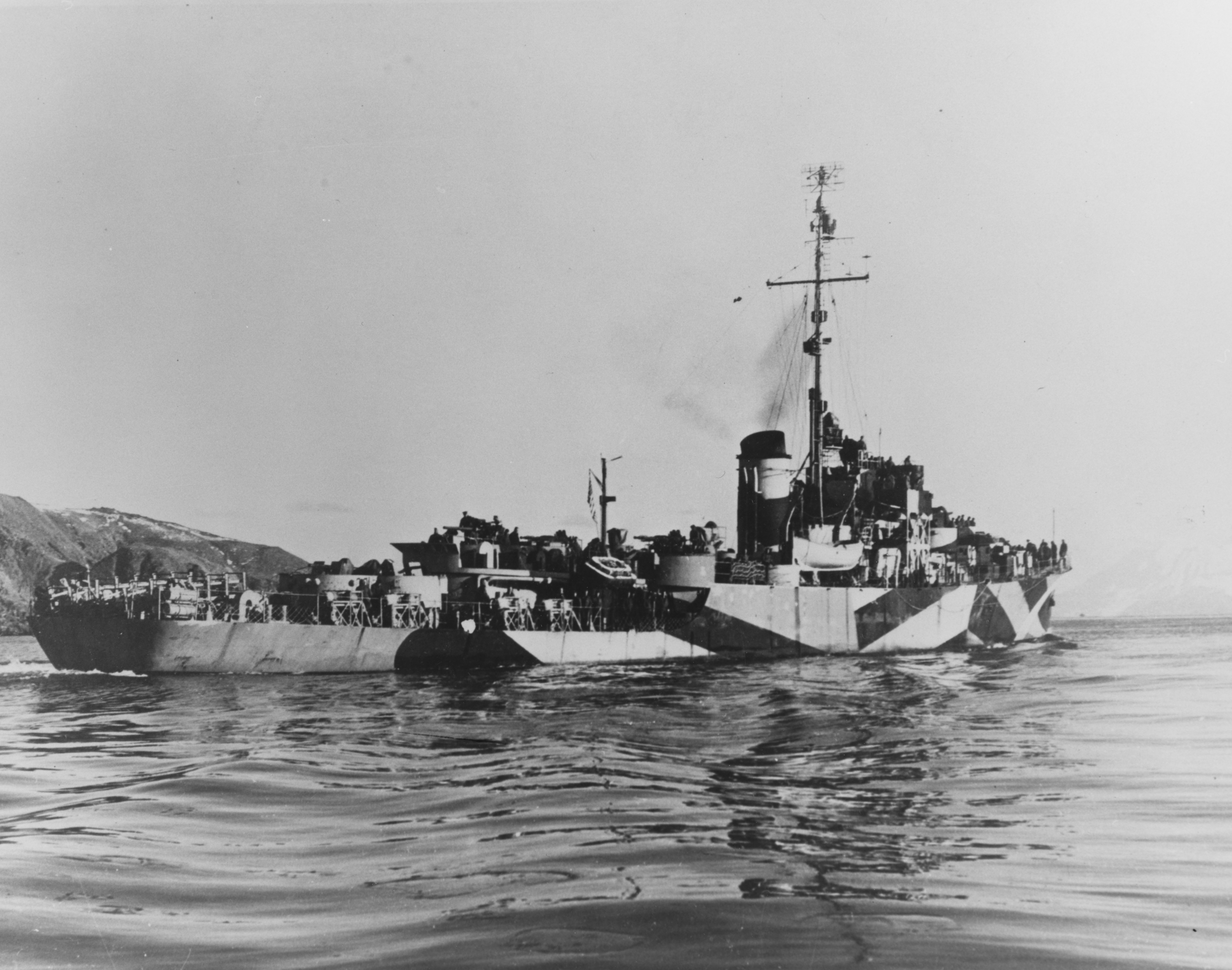 Photo #: NH 94146 USS Rockford (PF-48) Off Naval Operating Base Adak, Alaska, 30 January 1945. Her camouflage paint is Measure 32, Design 16d. Courtesy of the U.S. Naval Institute Photo Collection. U.S. Naval Historical Center Photograph.